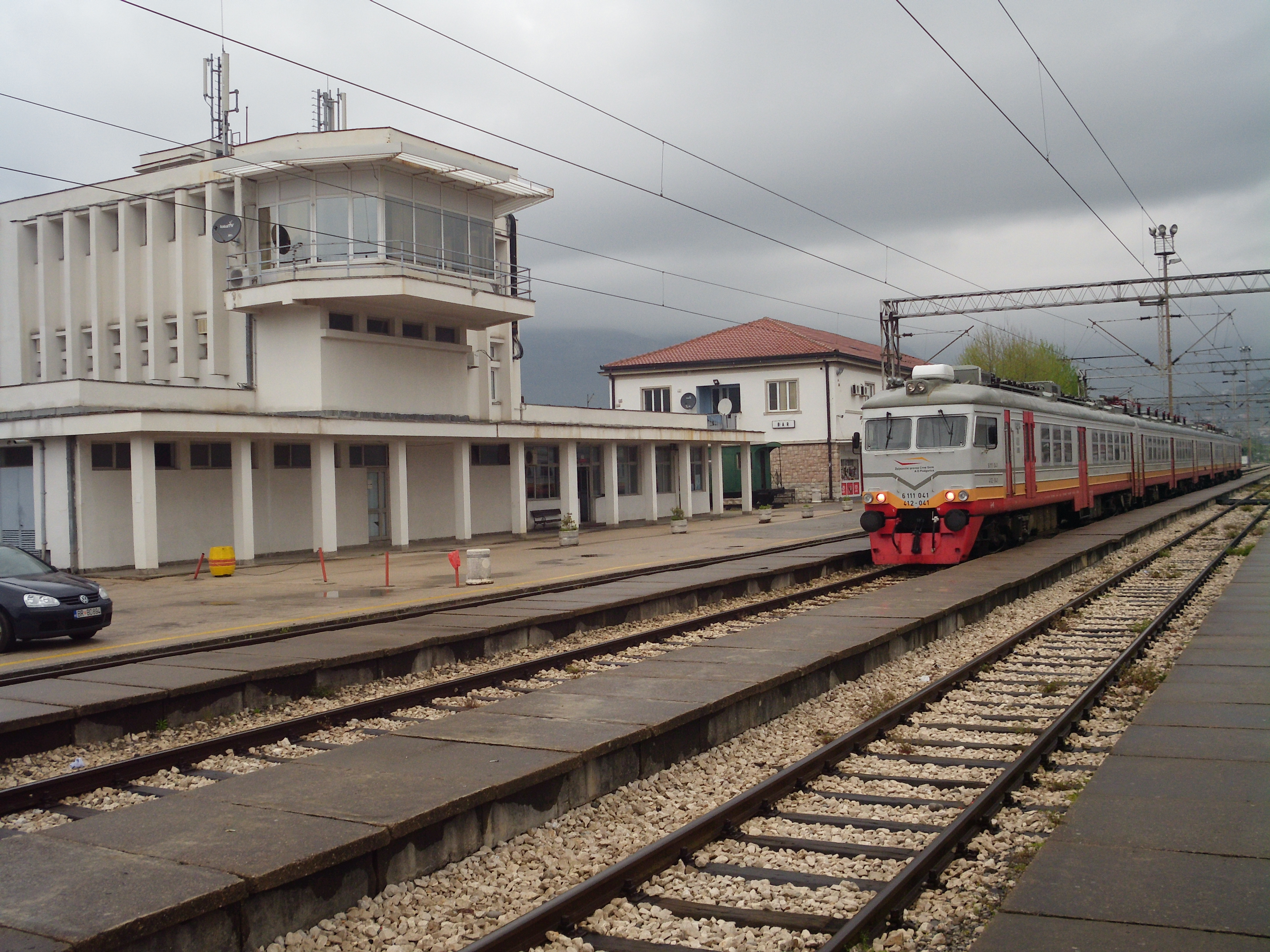 Train at a station in Bar, Montenegro